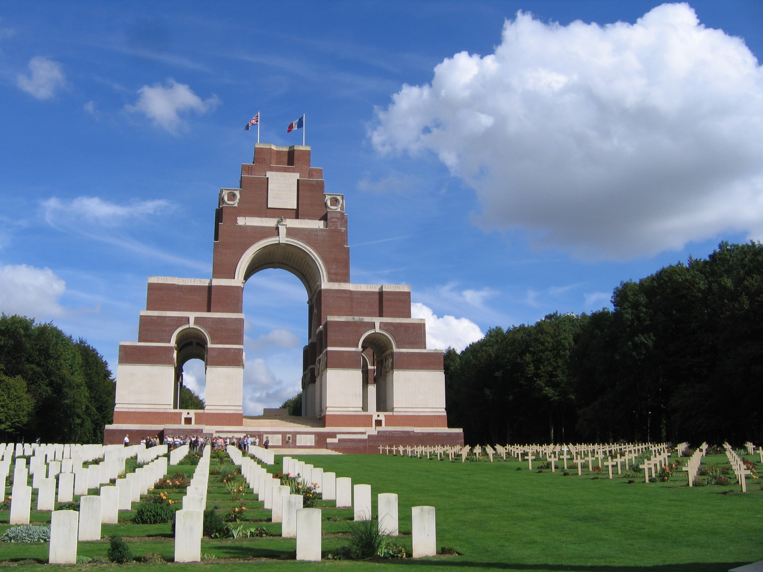 Graves in the Thiepval Anglo-French Cemetery, seen with the Thiepval Memorial to the Missing of the Somme, Thiepval, France.